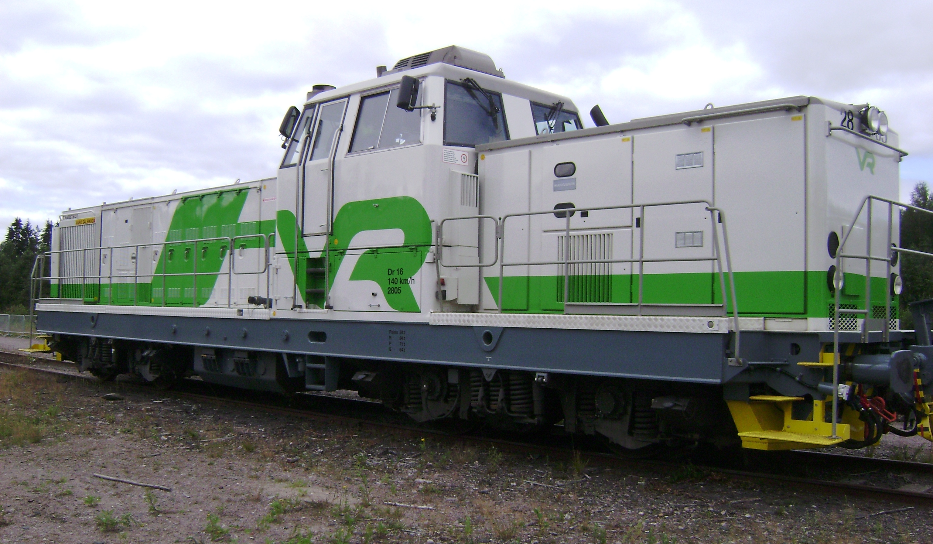 VR Class Dr16 diesel locomotive no. 2805 standing near Finnish Railway Museum in Hyvinkää, Finland.